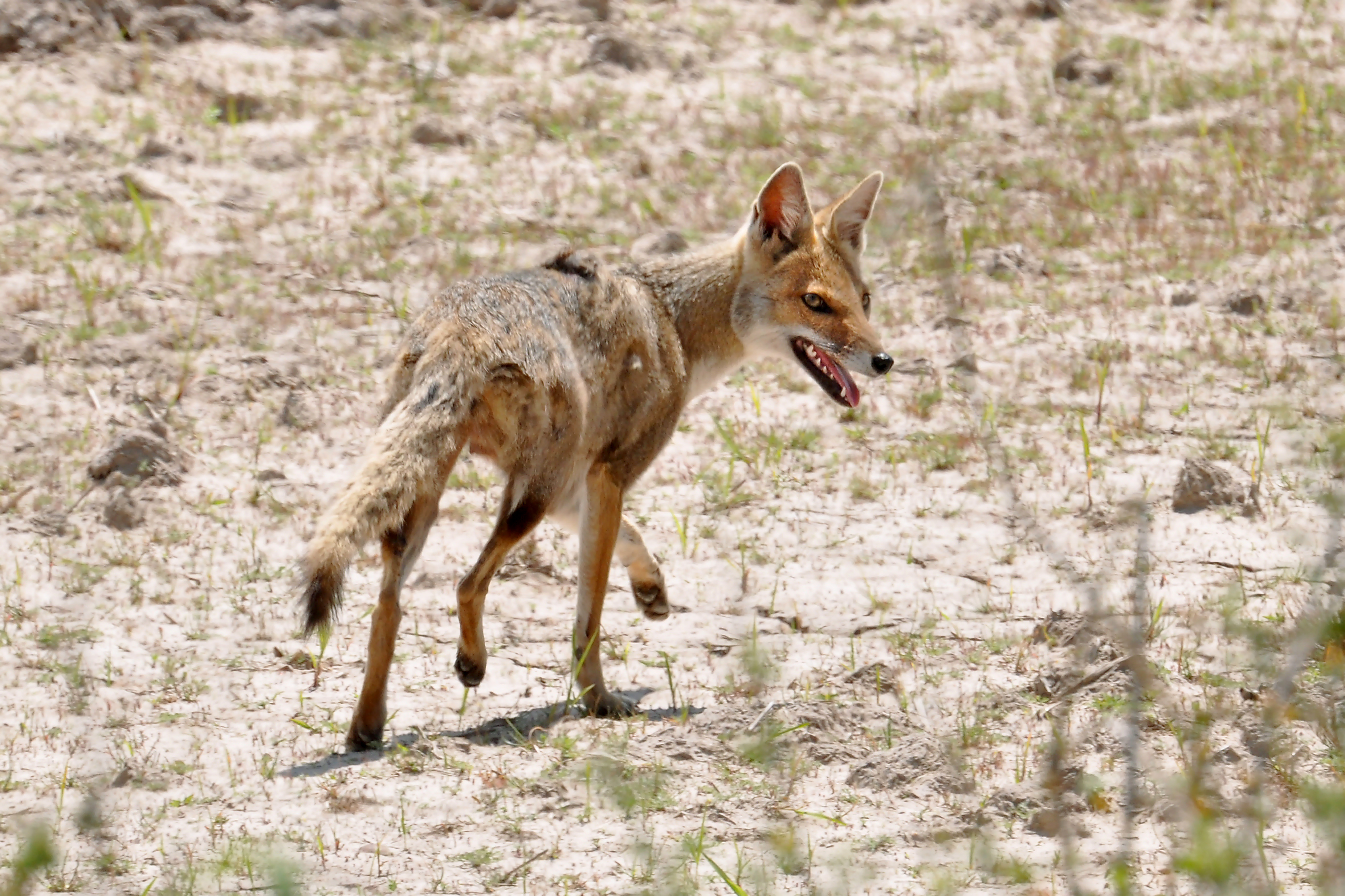 Lycalopex gymnocercus subsp. gymnocercus photographed in Rio Grande do Sul, Brazil, in October 2010.